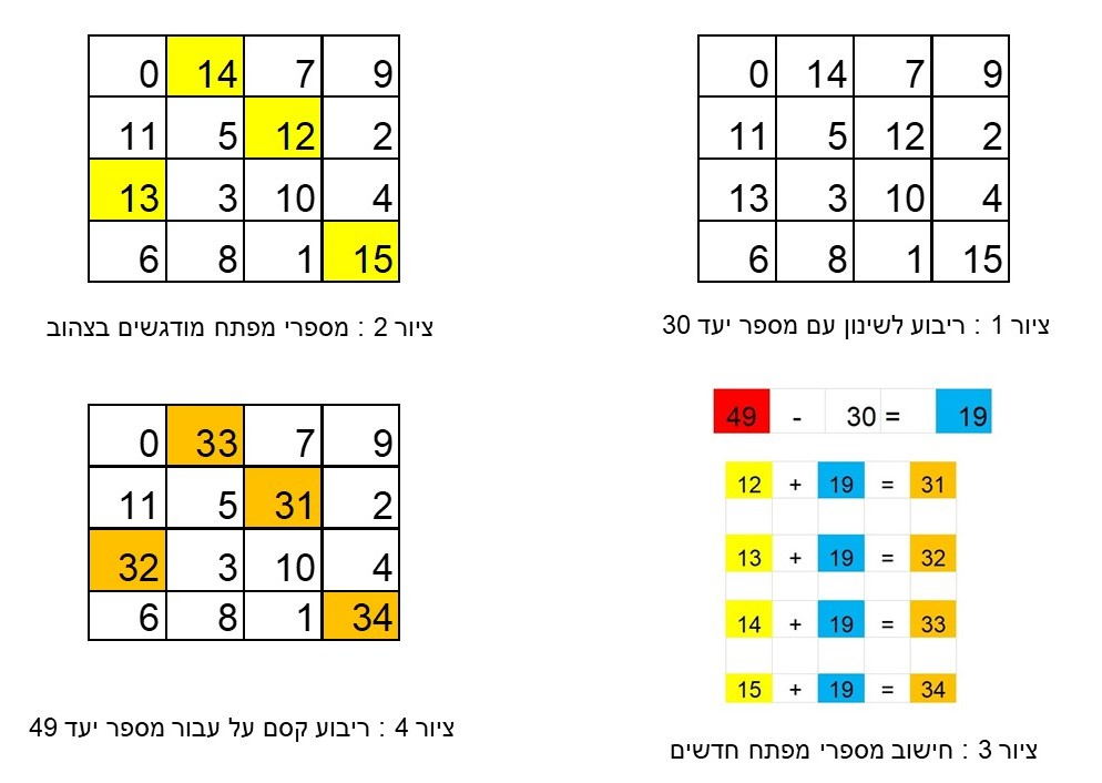 The file includes 4 drawings. Fig. 1 is a super magic square for studying by heart with 30 as the target number. Fig. 2 is the magic square with key numbers emphasized by yellow. Fig. 3 presents the calculation of key numbers for a new target number. Fig. 4 is the super magic square for target number 49.